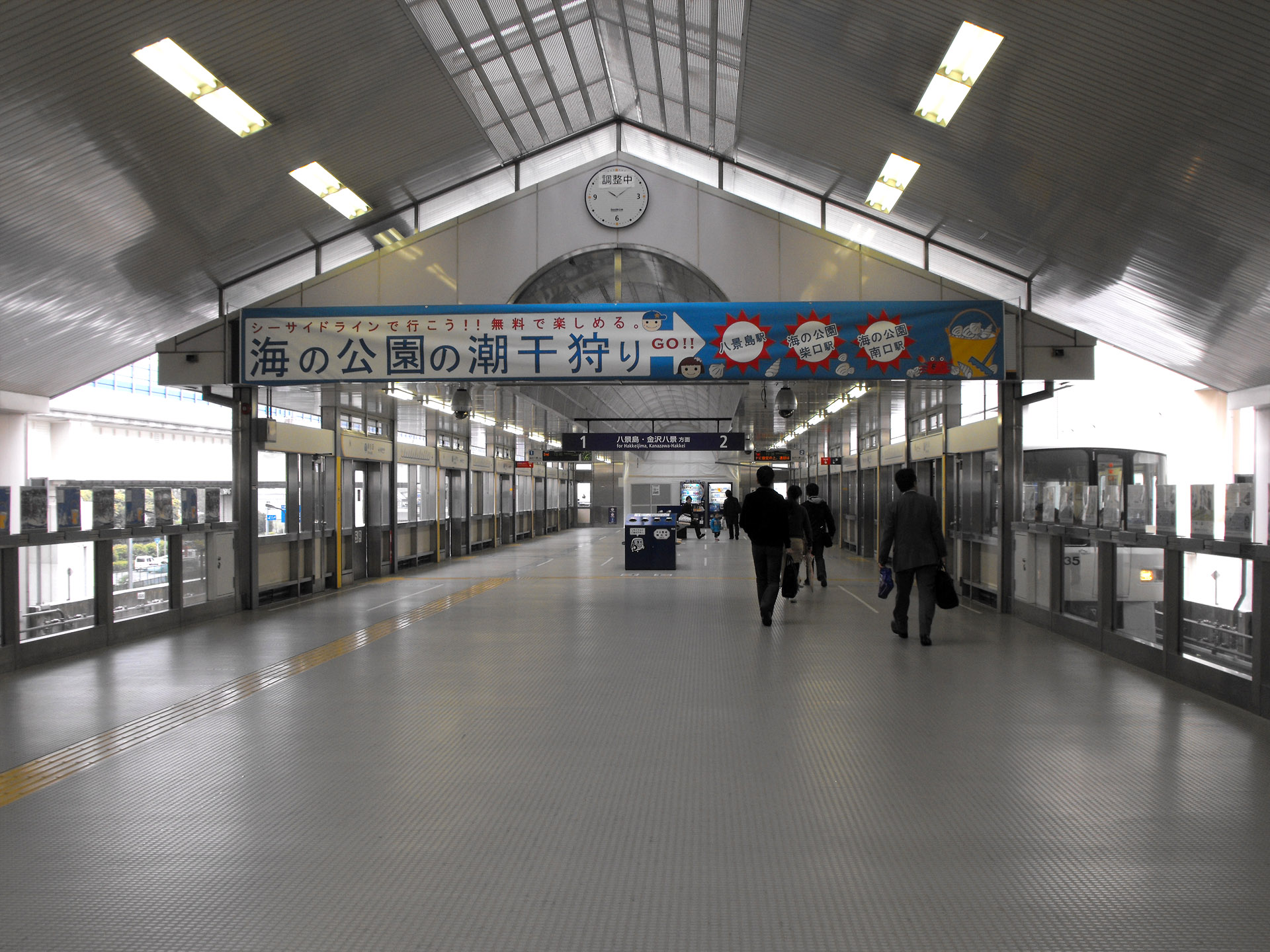 Shin-sugita railway station of Kanazawa Seaside Line, Isogo-ku, Yokohama, Japan.